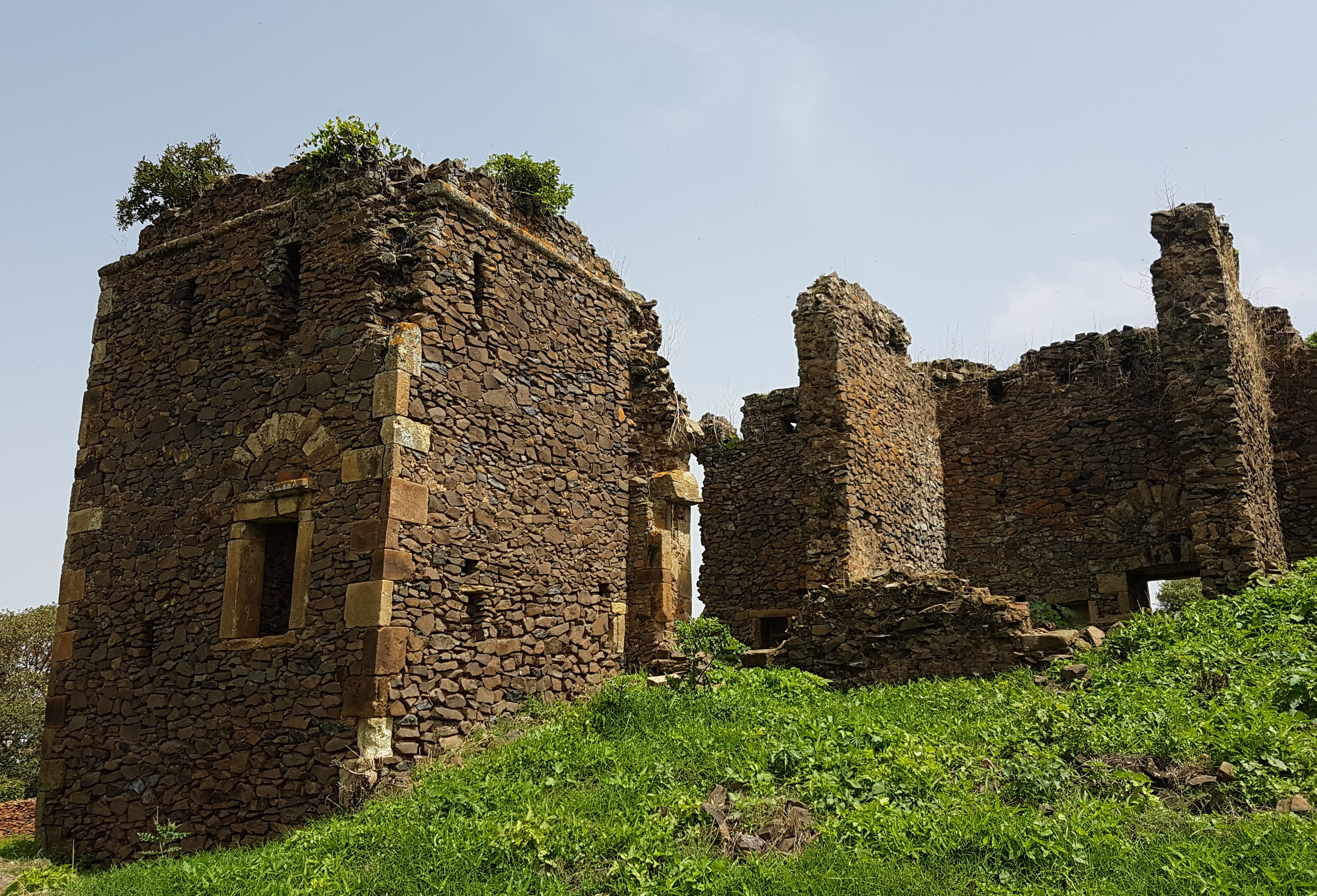 Former Jesuit residence in Gorgora Nova, Amhara Region, Ethiopia. July 2018.